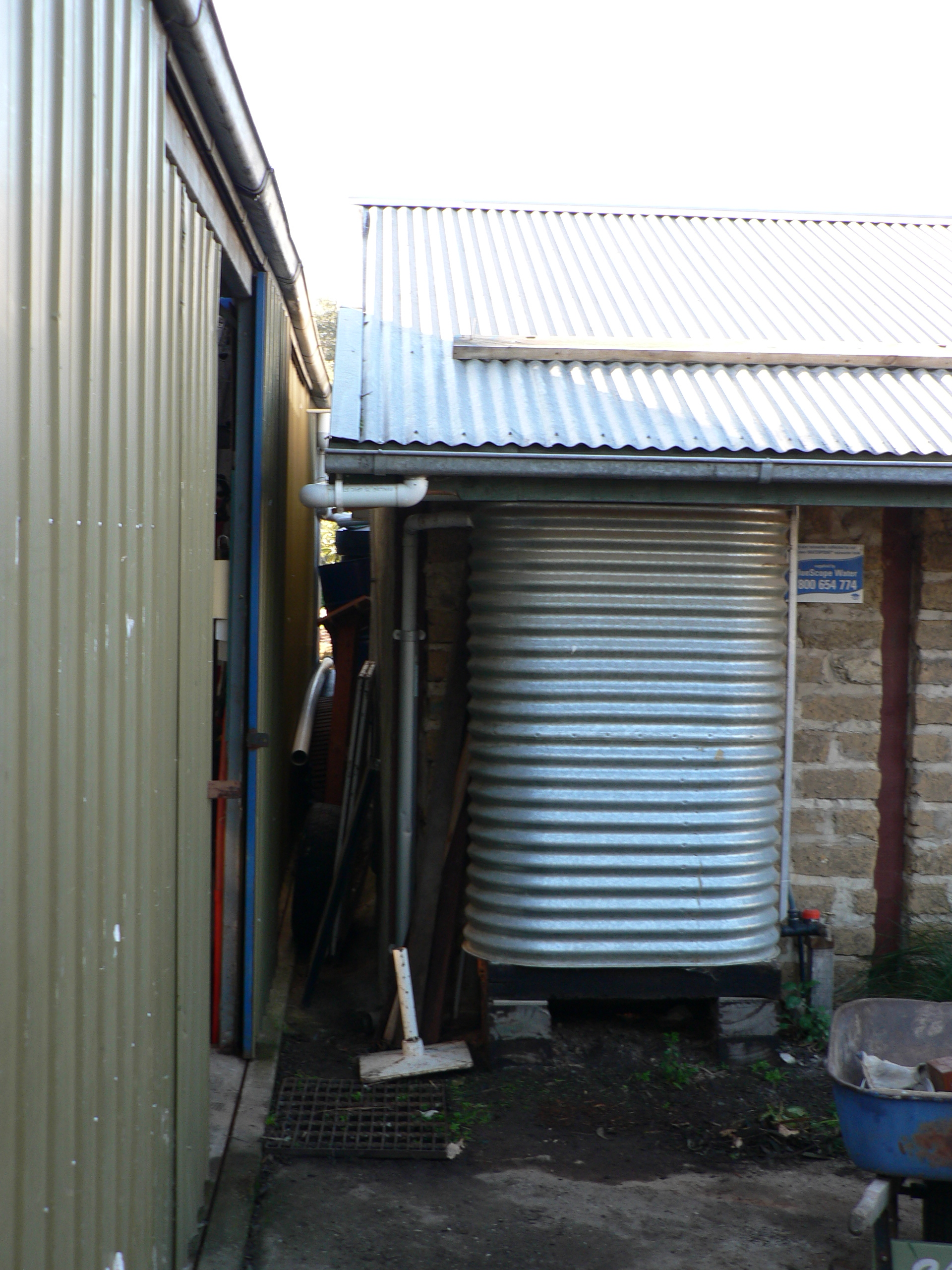 Rainwater tank at Ceres Environment Park